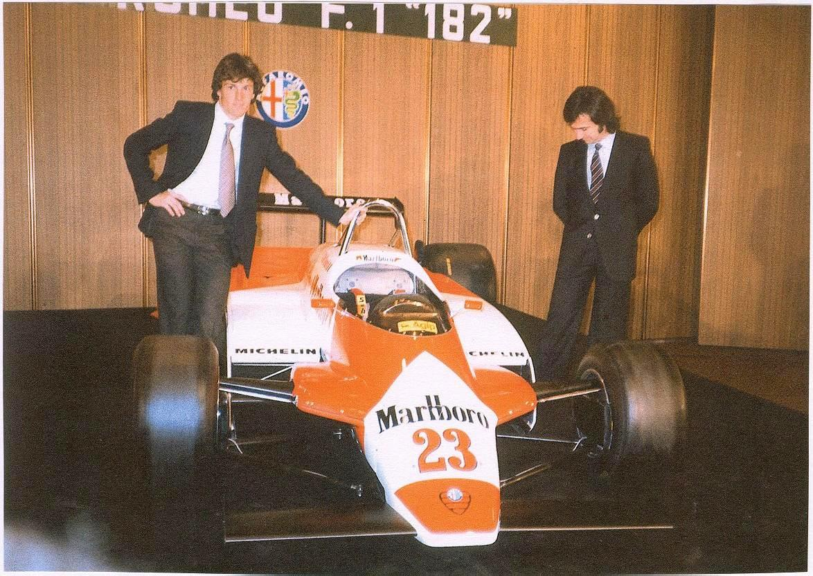 Alfa Romeo 182 Andrea De Cesaris 1982